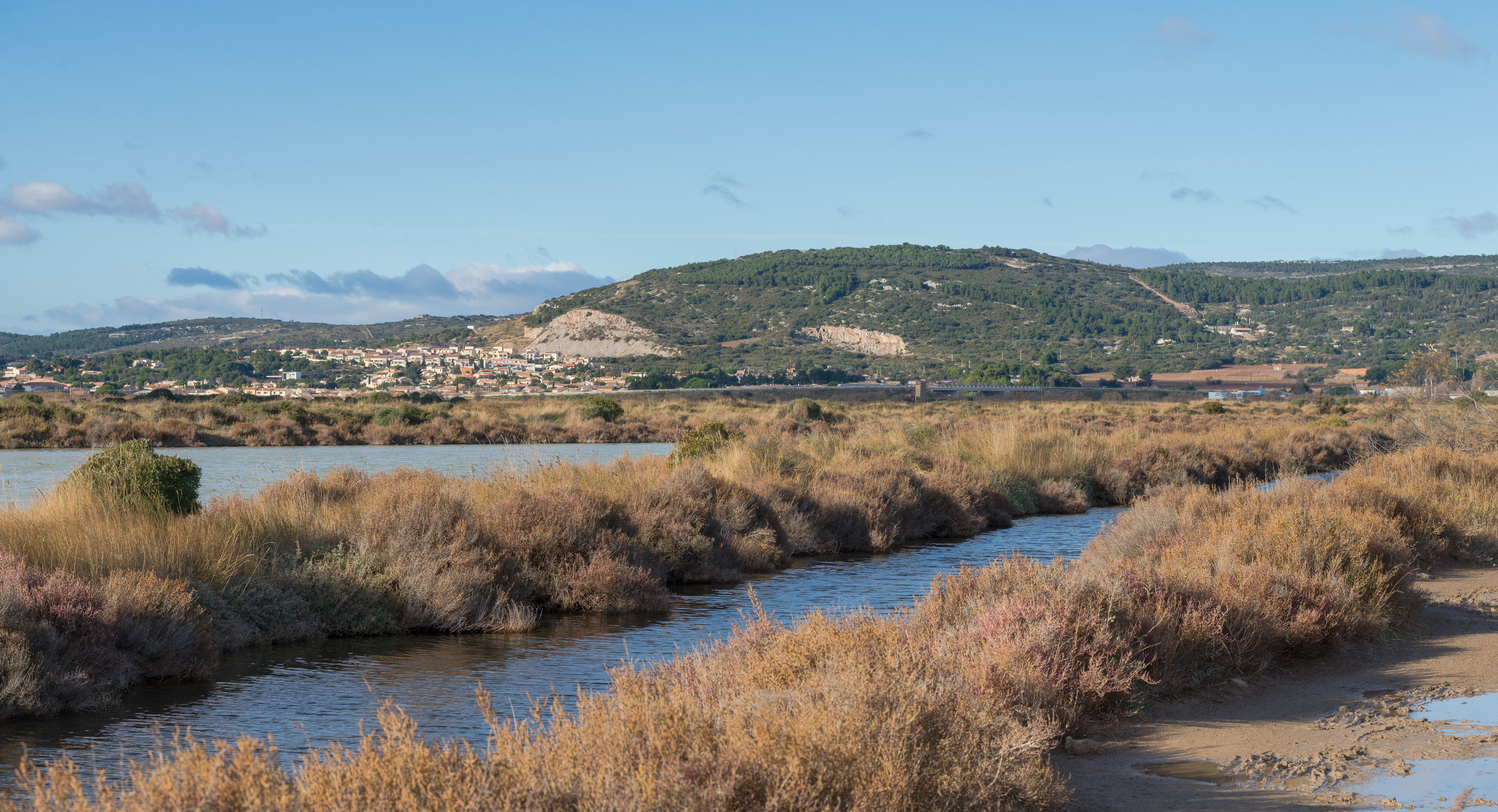 Les Crozes Neighbourhood from Les Salins (former salt evaporation ponds). Frontignan, Hérault, France.